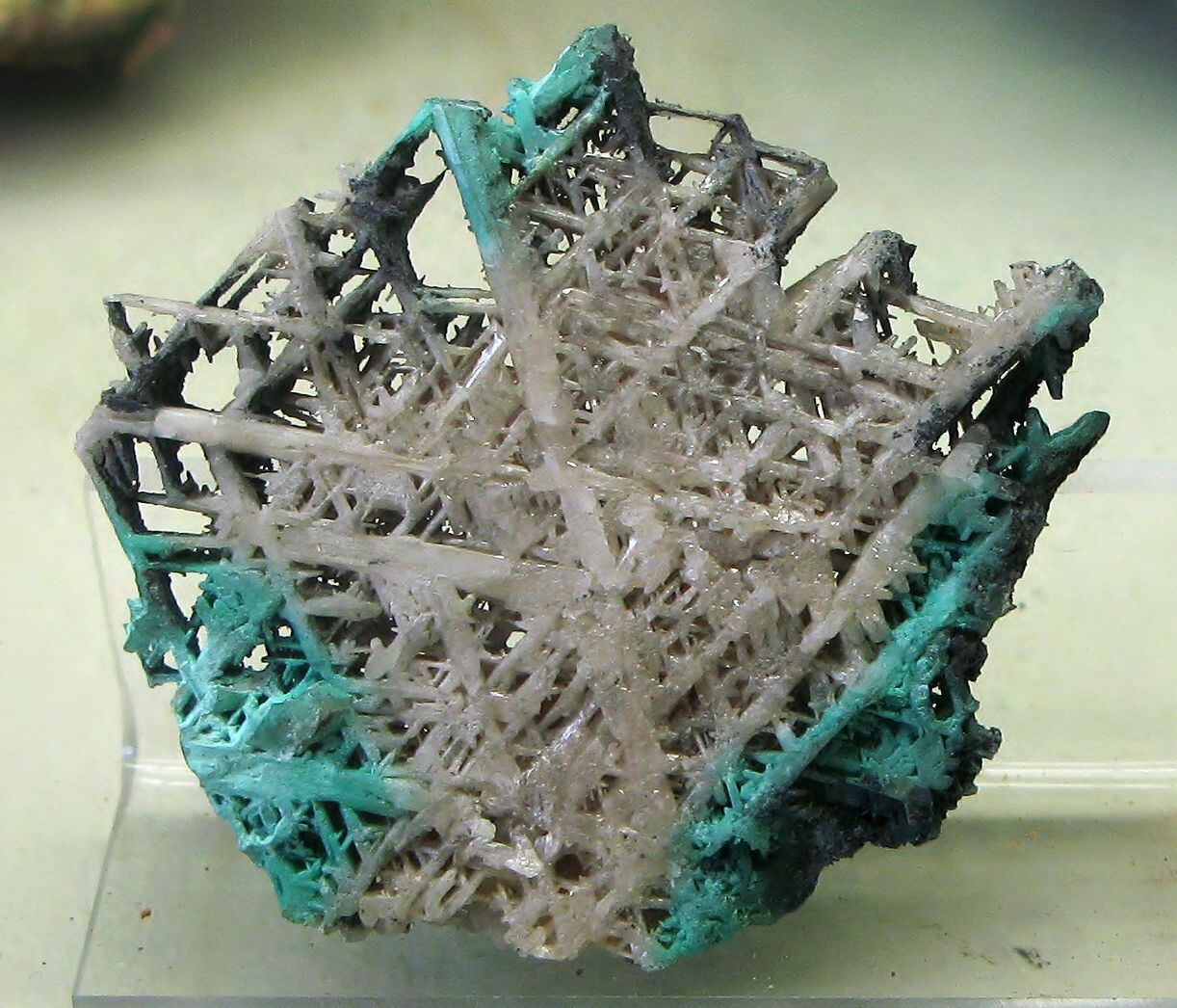 Cerussite out of the oxidation zone - Locality: Tsumeb, Southwest-Africa - Exposed in the Mineralogical Museum, Bonn, Germany